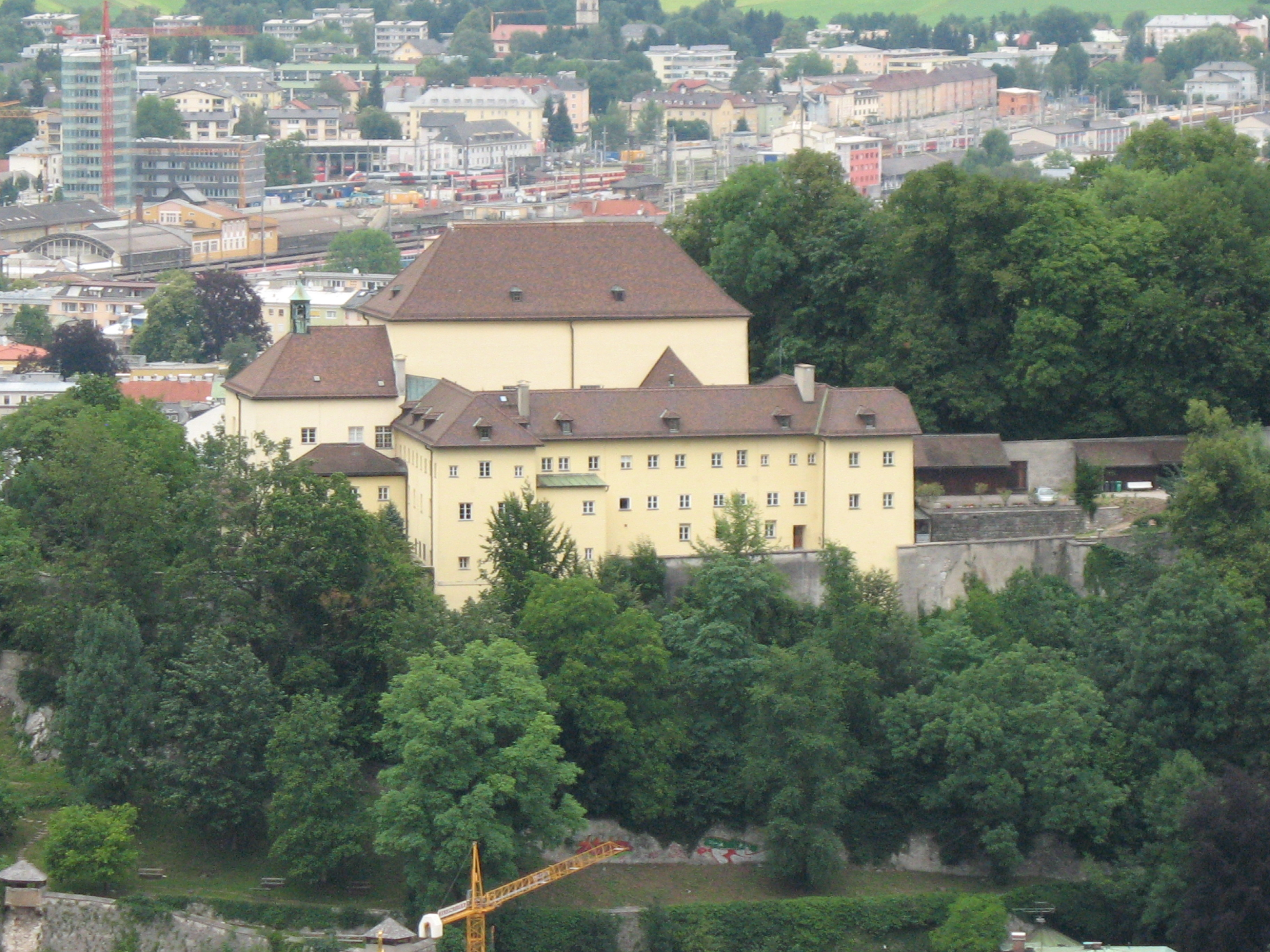 Kapuziner Cloister, Kapuziner Hill, Salzburg, Austria